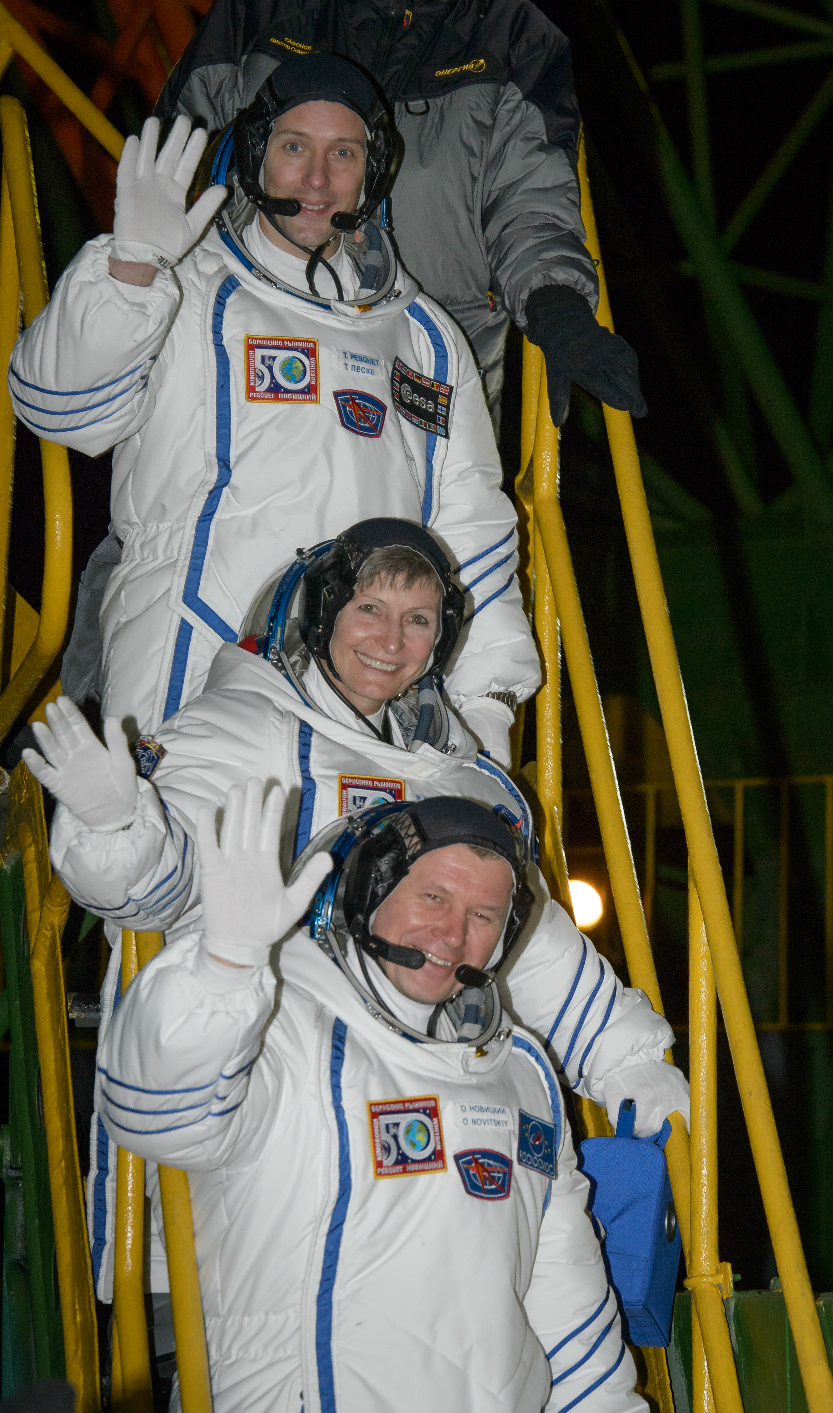 Expedition 50 crewmembers ESA astronaut Thomas Pesquet, top, NASA astronaut Peggy Whitson, middle, and Russian cosmonaut Oleg Novitskiy of Roscosmos wave farewell before boarding their Soyuz MS-03 spacecraft for launch Thursday, Nov. 17, 2016, (Kazakh Time) in Baikonur, Kazakhstan. The trio will launch from the Baikonur Cosmodrome in Kazakhstan the morning of November 18 (Kazakh time.) All three will spend approximately six months on the orbital complex. Photo Credit: (NASA/Bill Ingalls)